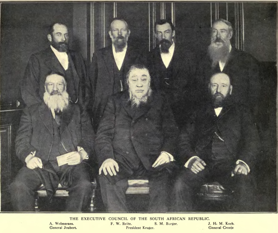 Paul Kruger's government Back: A. D. W. Wolmarans, F. W. Reitz, S. W. Burger, J. H. M. Koch Front: Genl. Piet J. Joubert, Pres. Paul Kruger, Genl. Piet A. Cronje